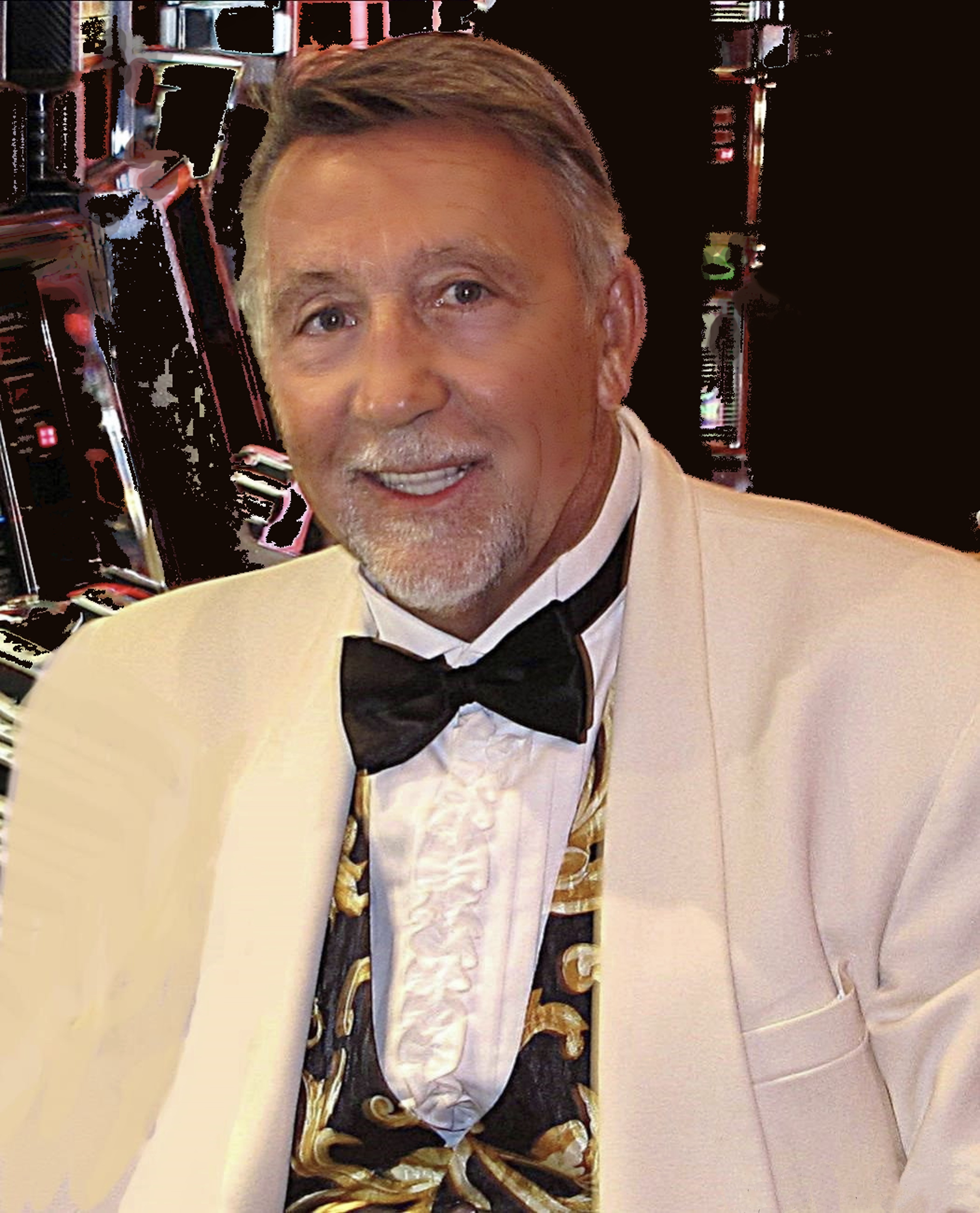 Michail Svetlev after performance